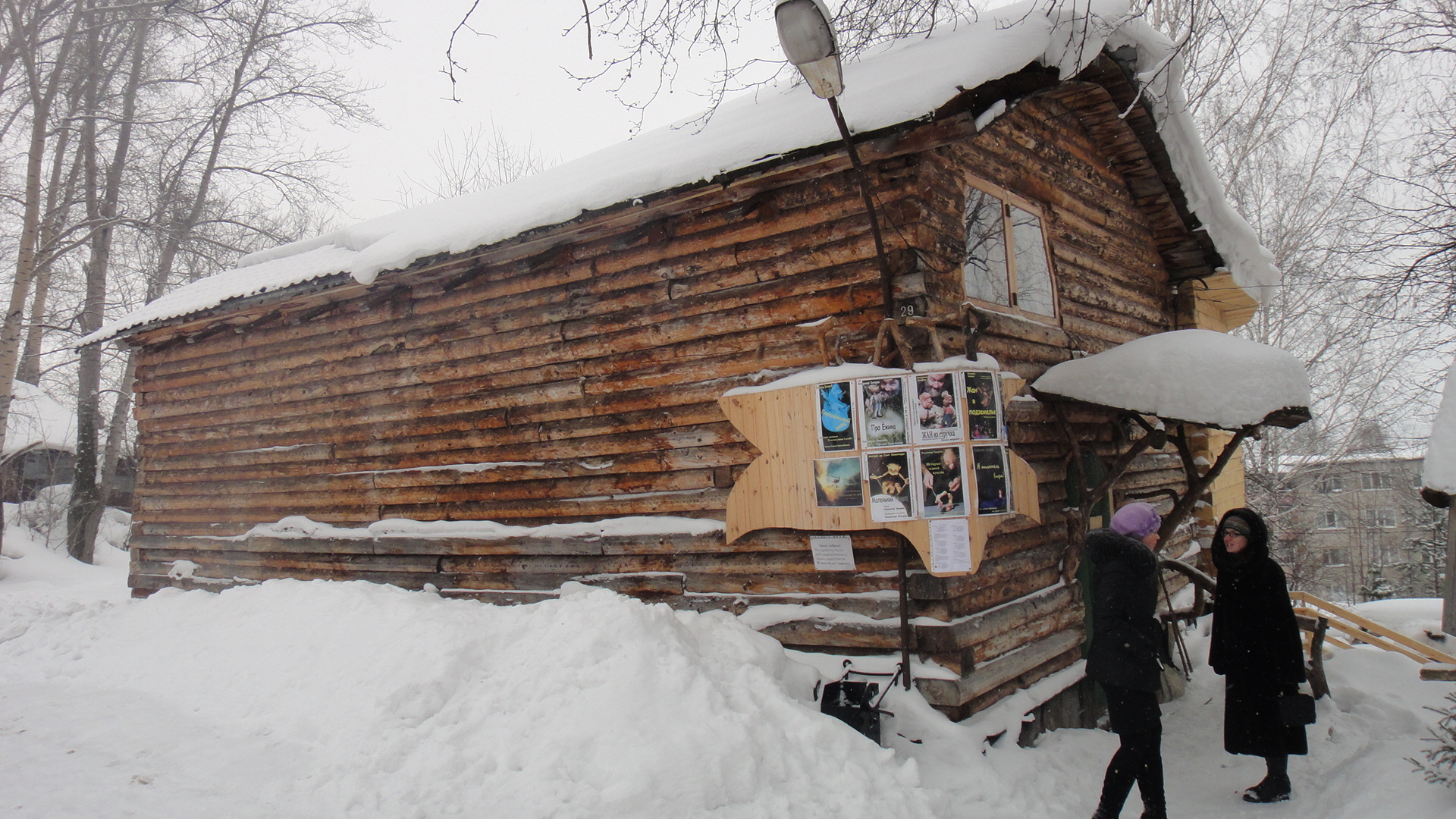 Театр живых кукол «Два плюс Ку»